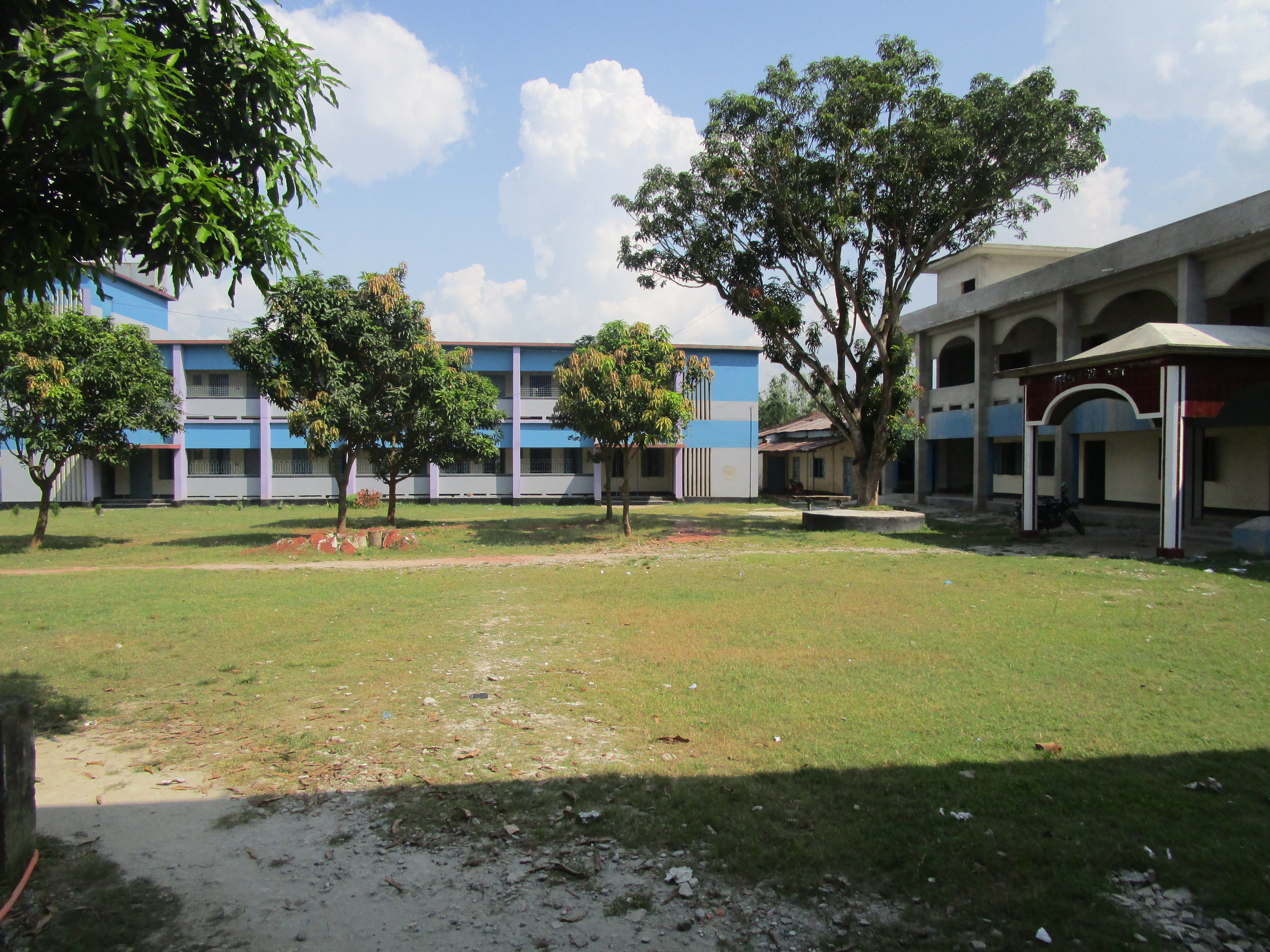 Parbatipur Degree College building at Parbatipur Upazila.